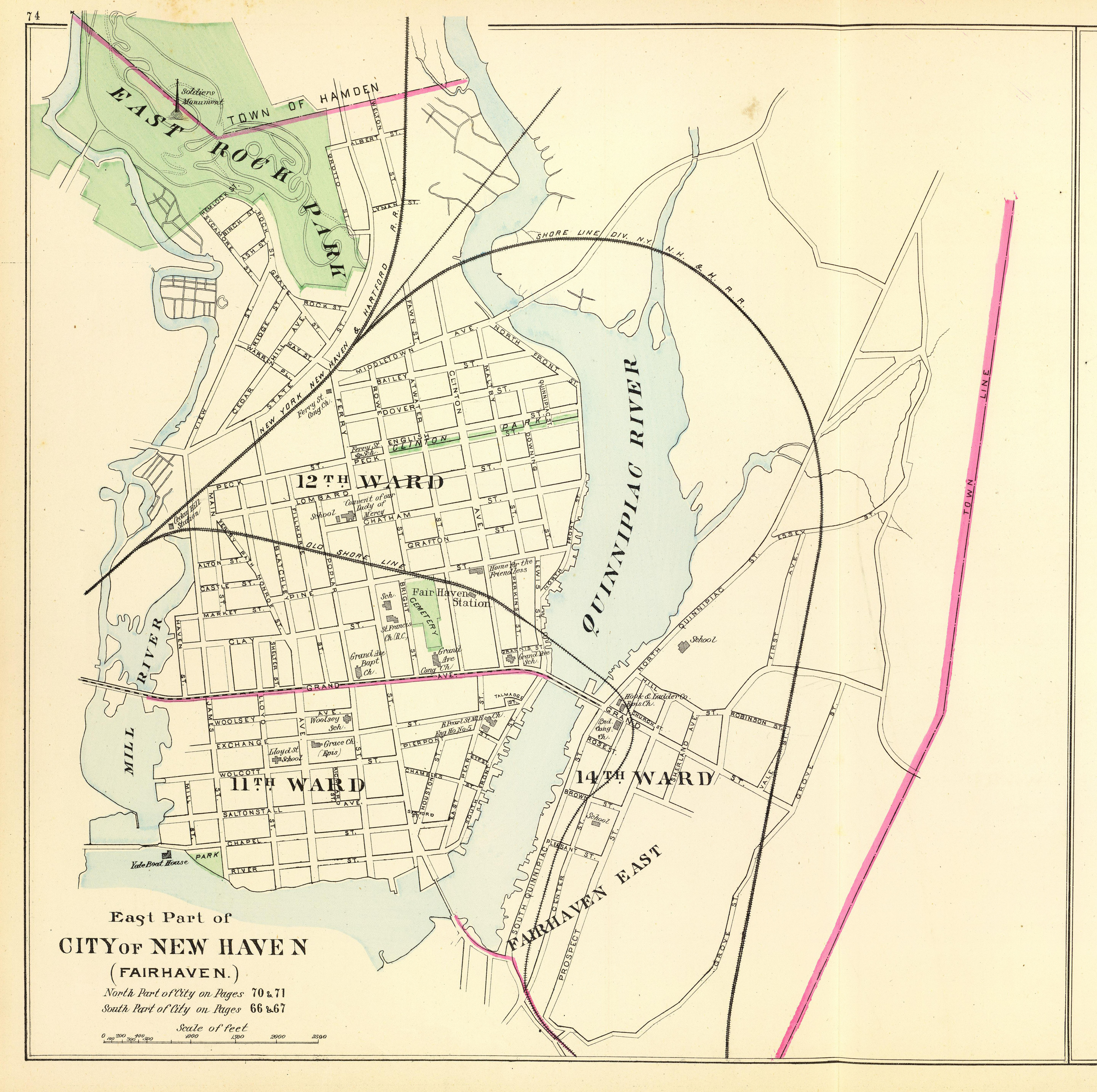 1893 map of the eastern section of New Haven, including East Rock Park and Fair Haven. The old (middle) and new (top) New haven Railroad main line is visible.